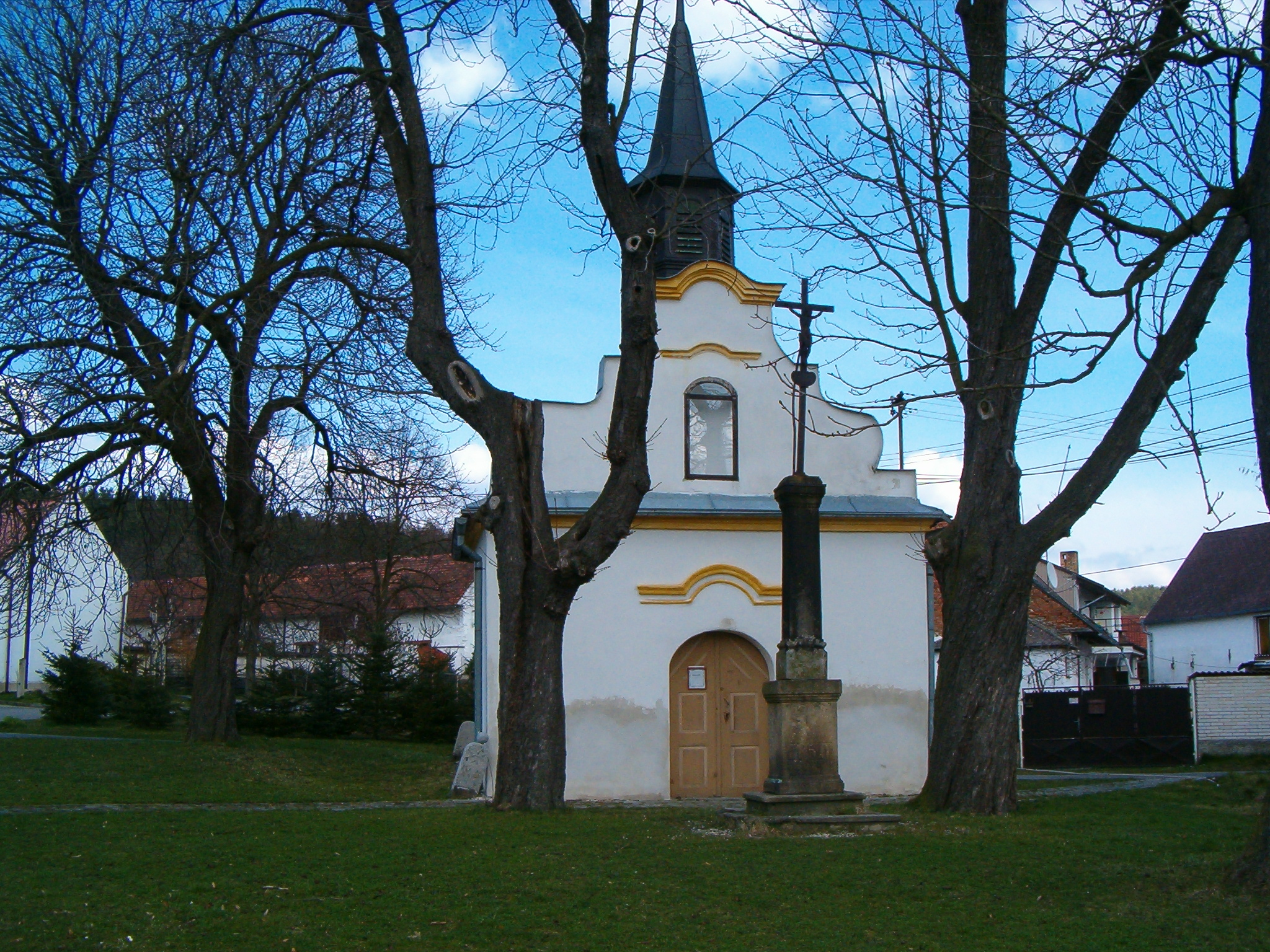 Mečichov village (district Strakonice) - detail of chapel